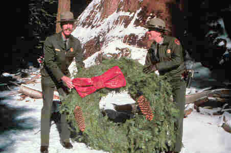 Christmas wreath at the base of the General Grant tree -- the "Nation's Christmas Tree". National Park Service photo. [1]